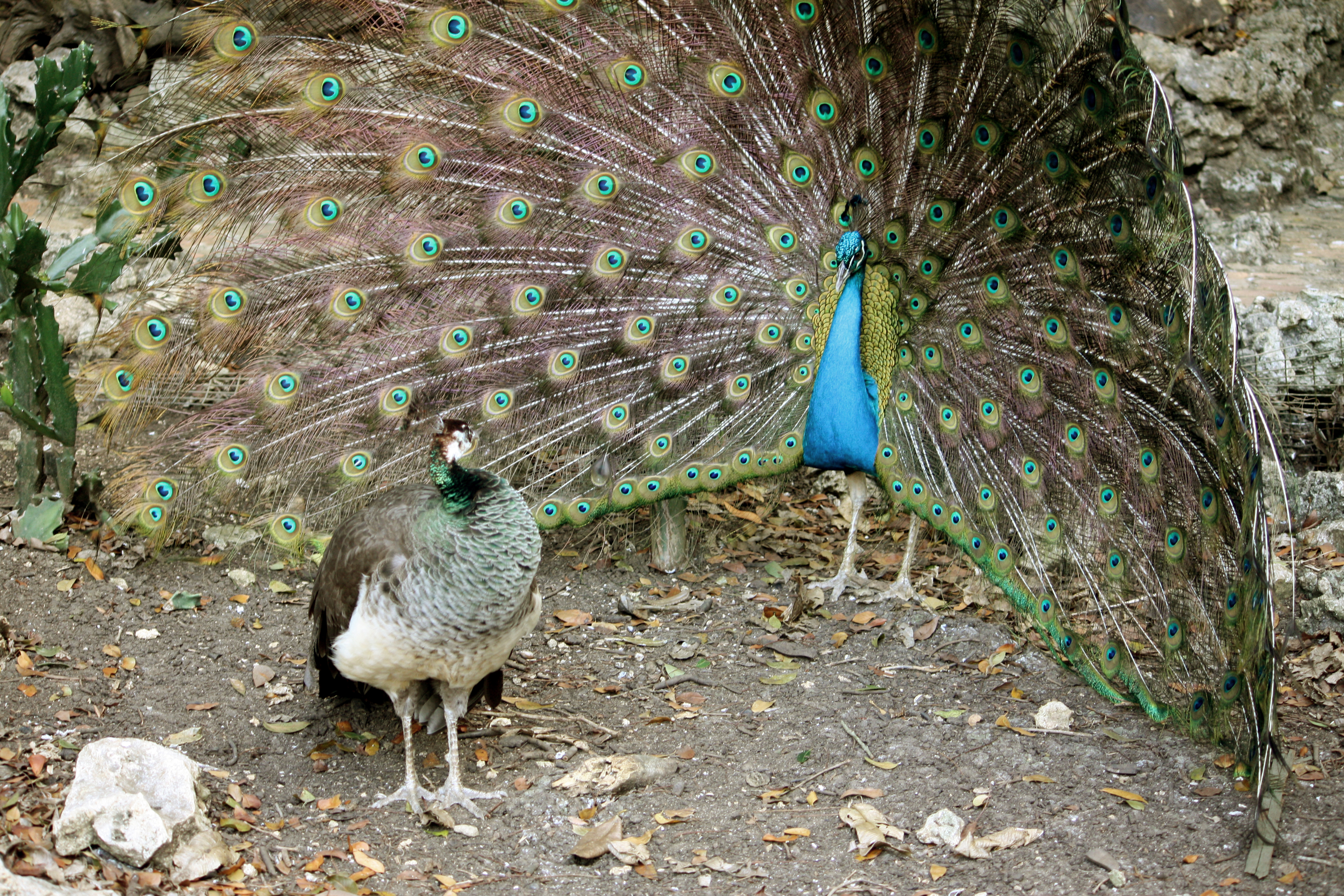 Male Indian Peafowl (Pavo cristatus), displaying to female. Barbados Wildlife Reserve.